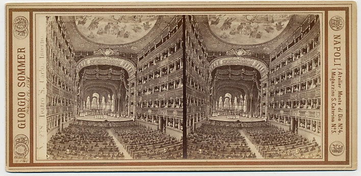 Giorgio Sommer (1834-1914), "Naples. San Carlo Opera House". Stereo card. Catalogue # 278. Whole image. Detail.